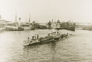 The British submarine HMS E19 in Reval (now Tallinn) harbour during WW I.